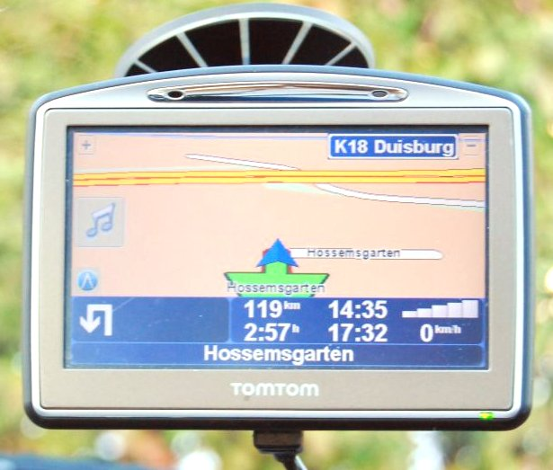 TomTom Go 720 Navigation device